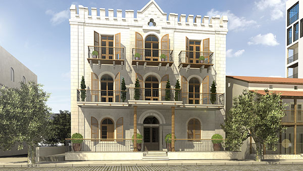 The Drisco Hotel (old Jerusalem Hotel) Auerbach St 6, Tel Aviv-Yafo, Israël